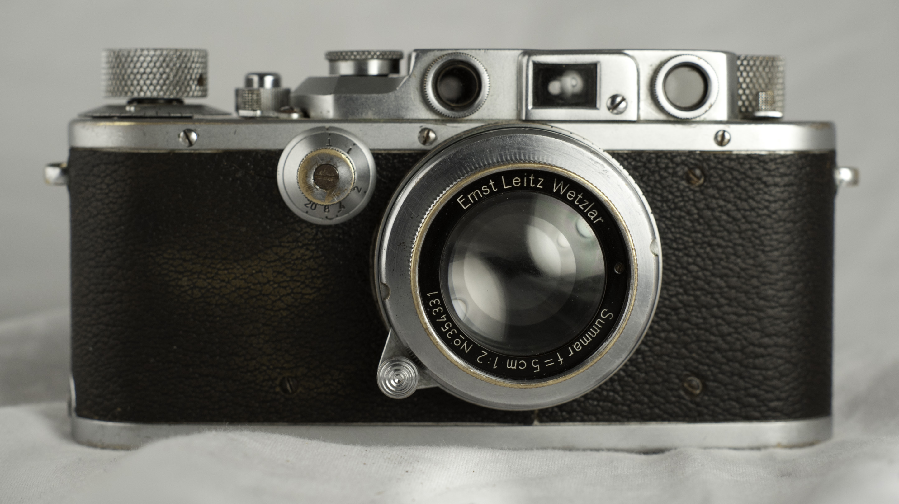 1939 Leica IIIb with Summar 5cm 1:2 lens